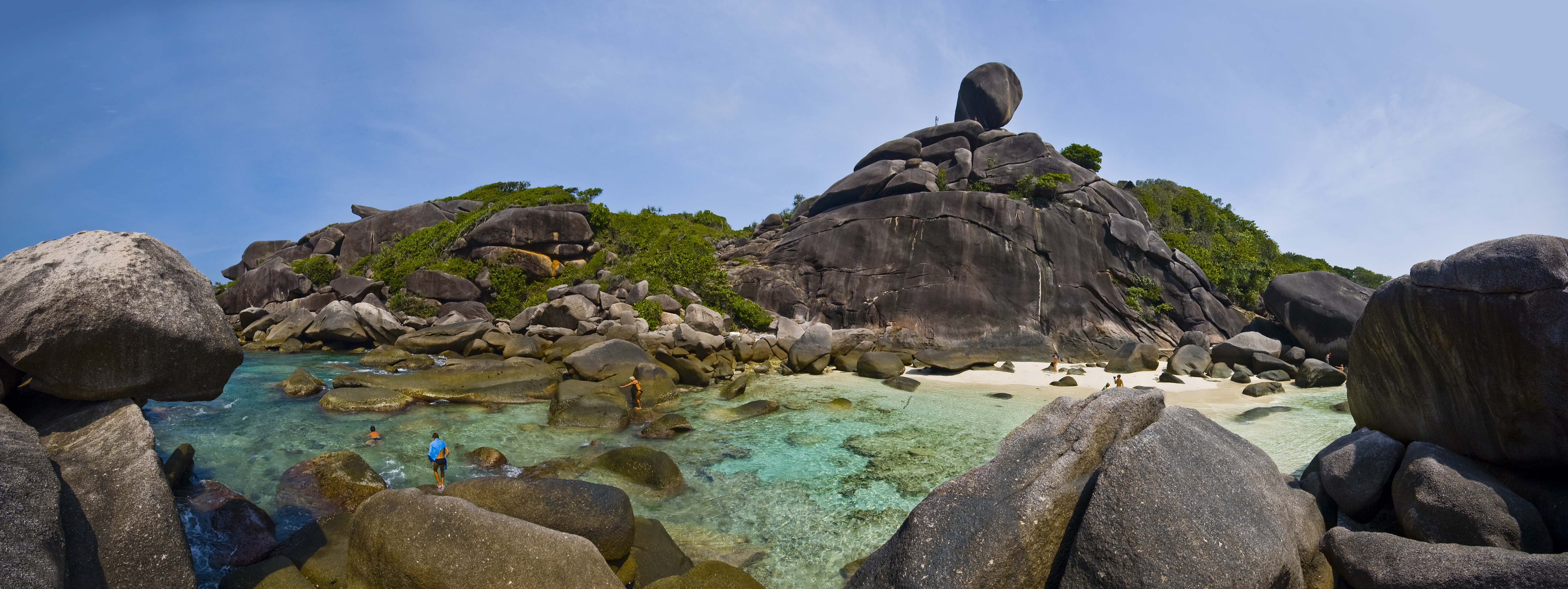 Day tour visitors enjoying the fine sand beaches and the cristal clear water on Ko Similan. Famous landmark on this island, the granit rock on top of the rock formation. Andaman Sea, Phang Nga Province, Thailand.